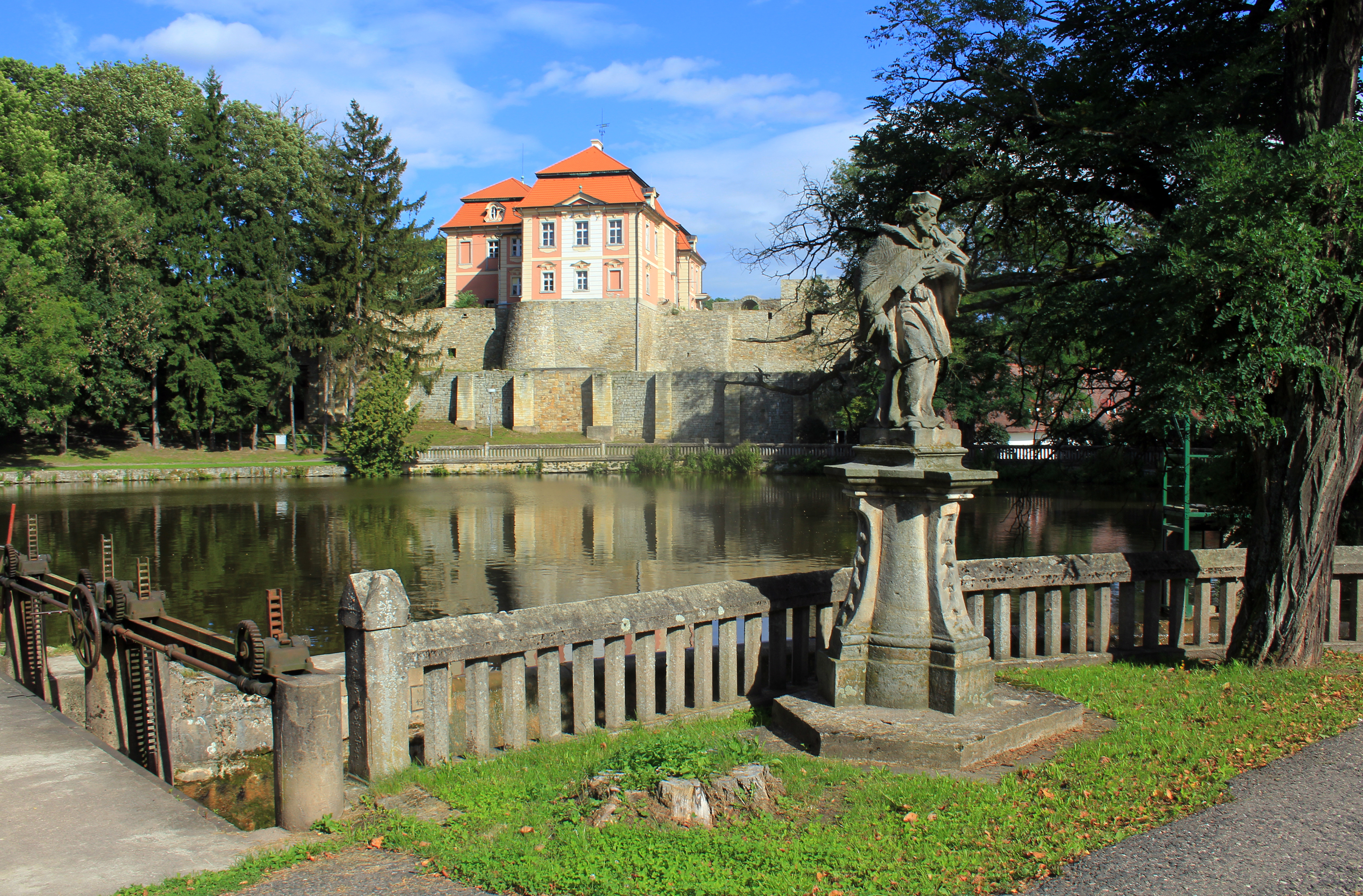 Small castle over pond in Chvalkovice, east Bohemia, Czech Republic